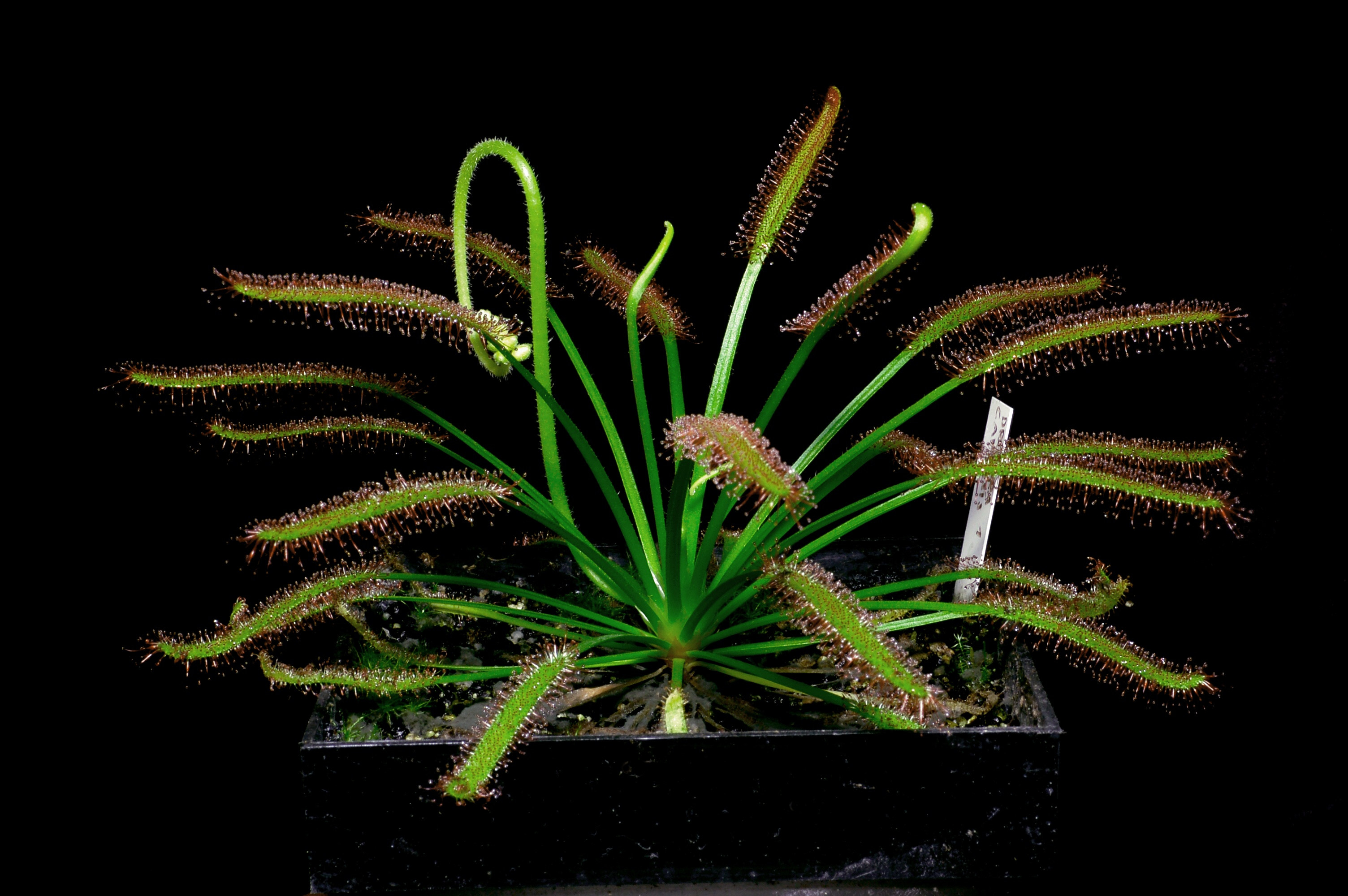 Drosera capensis